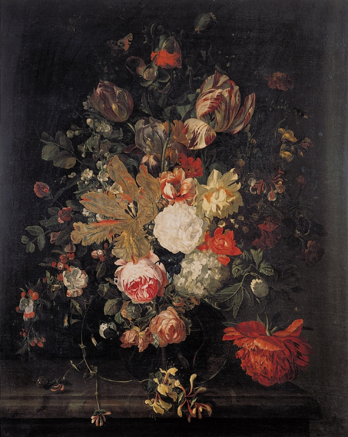 Paintings Oil on canvas 71 by 89 cm